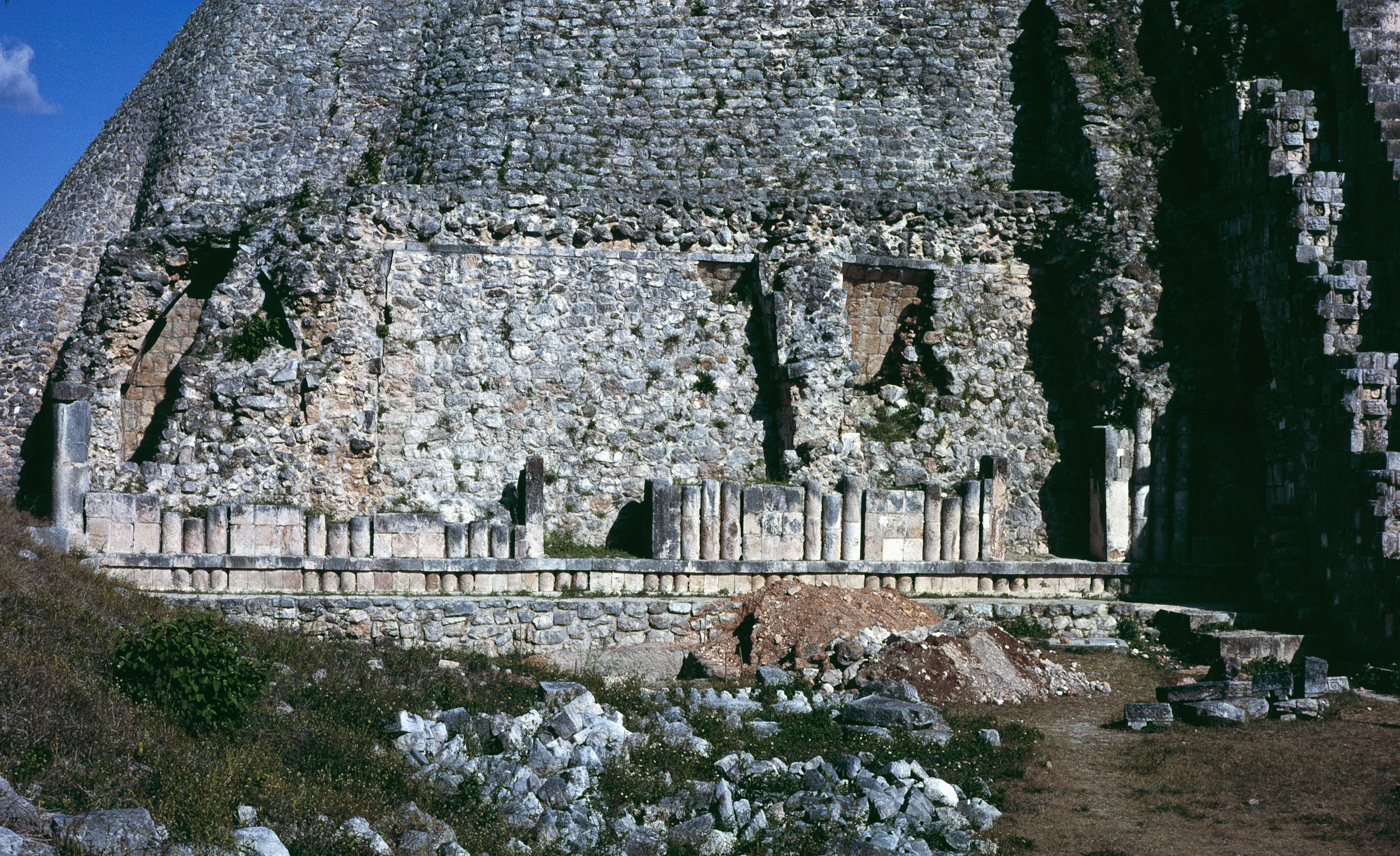 Uxmal, Yucatan, Mexico: Adivino, Temple 1